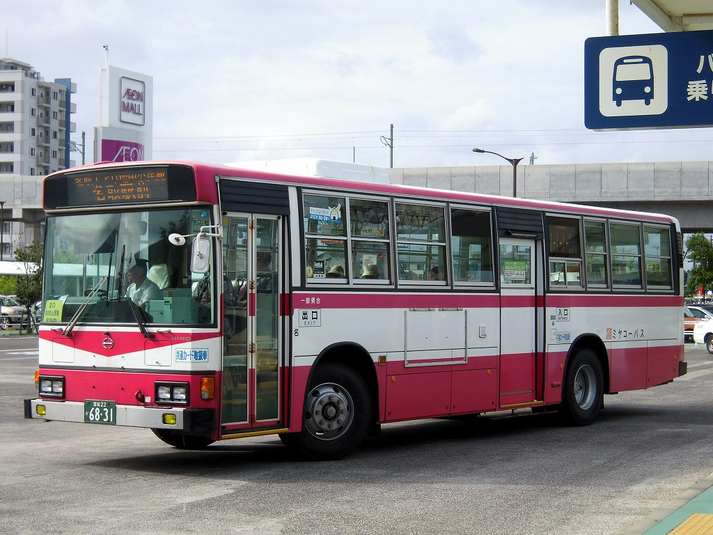 Miyako bus (Natori) HINO Blue Ribbon (KC-HU2MMCA)